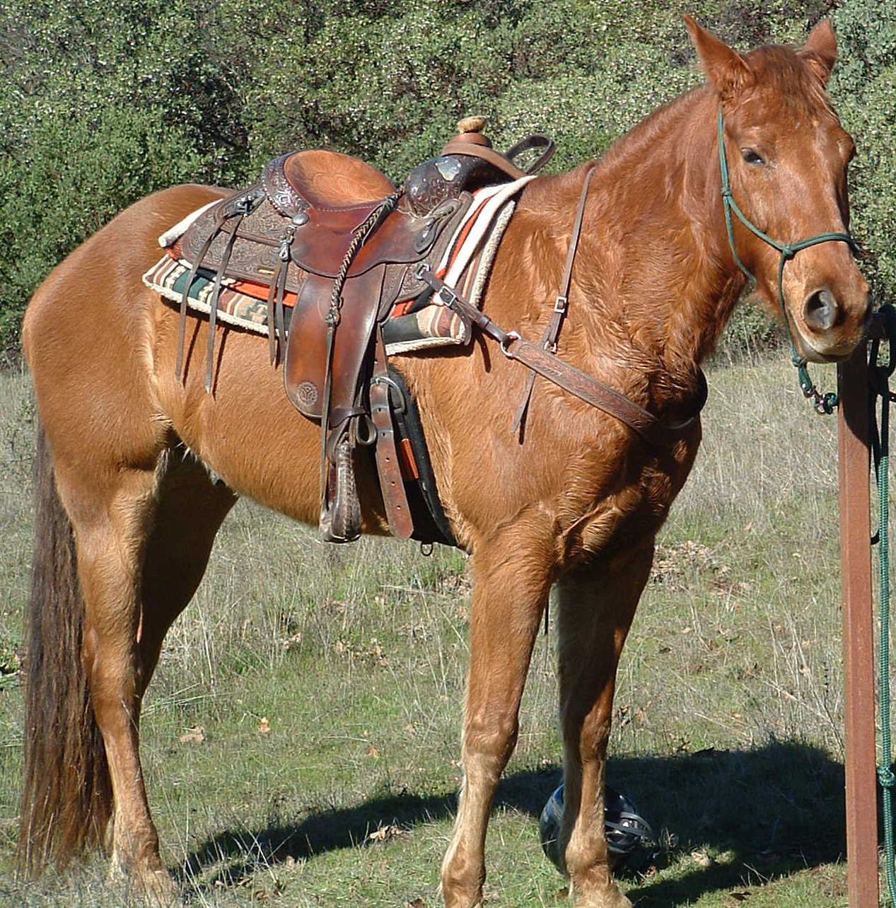 American Appendix Horse